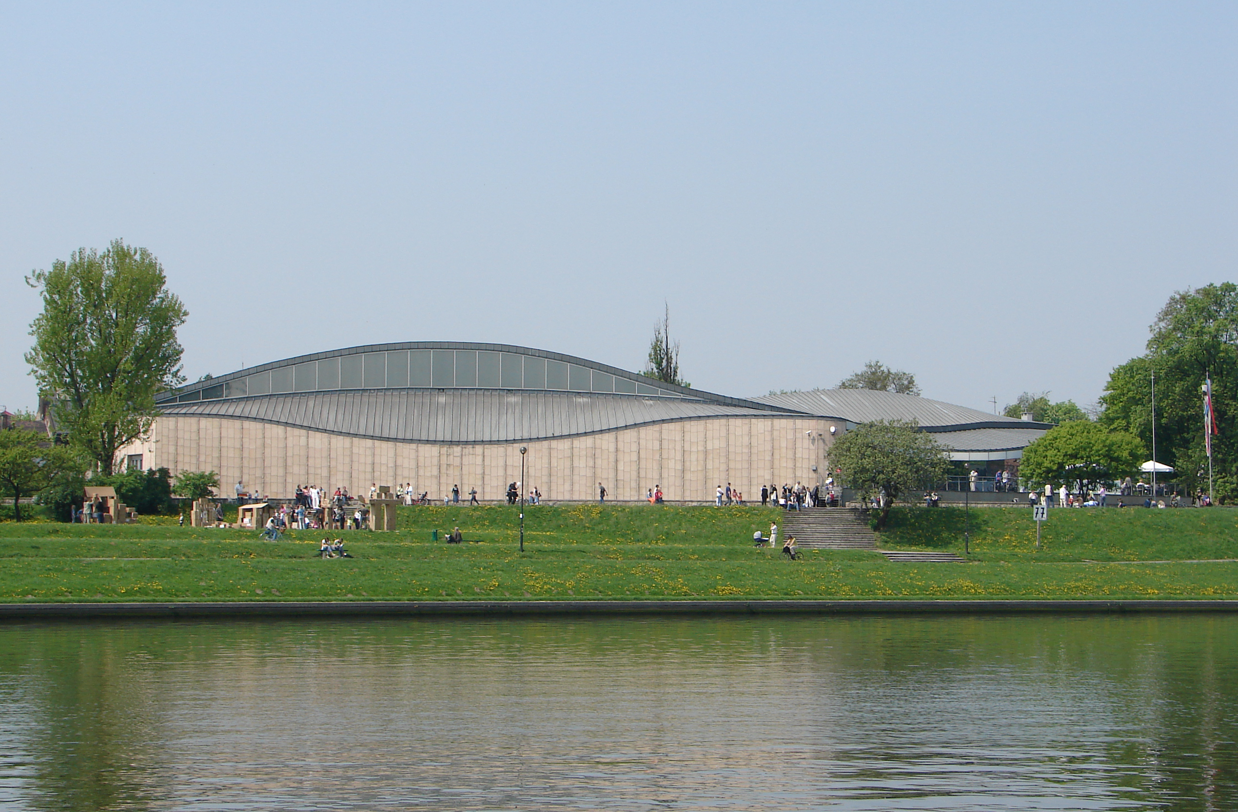 Manggha Museum of Japanese Art and Technology, 26 Konopnickiej street, Cracow, Poland (Arata Isozaki, 1994). Architecture was inspired by forms in nature such as waves of nearby river Vistula and waves from Hokusai's paintings. (source: Krzysztof Ingarden "Architektura - idea")